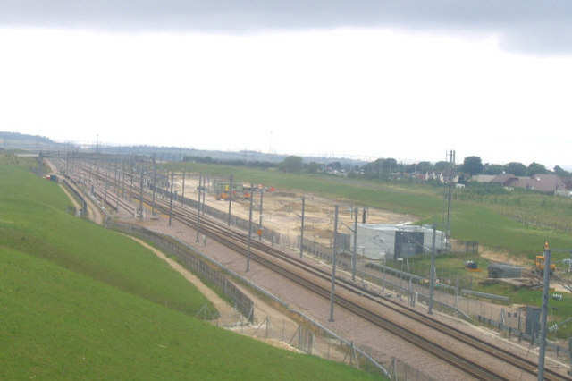 site for new rail depot at Singlewell